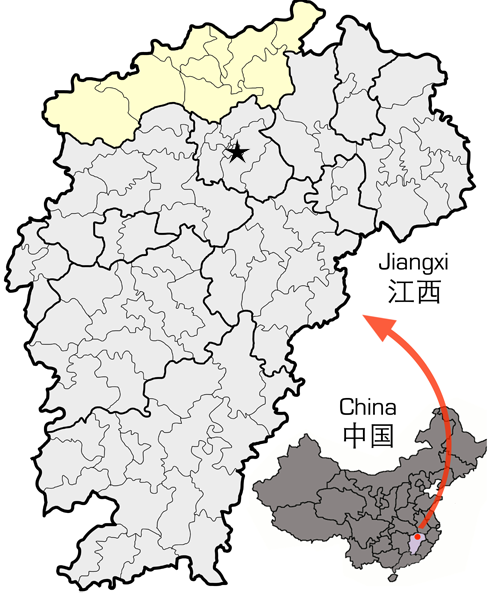 Map showing location of Jiujiang in Jiangxi Province China